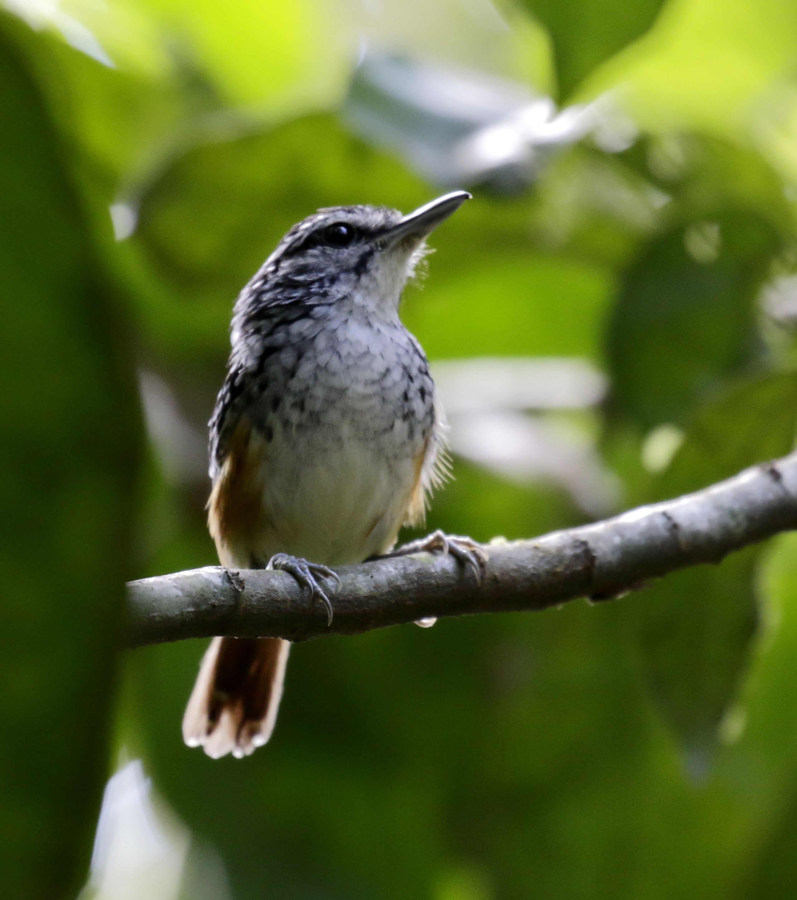 Peruvian warbling-antbird at Rio Branco, Acre, Brazil